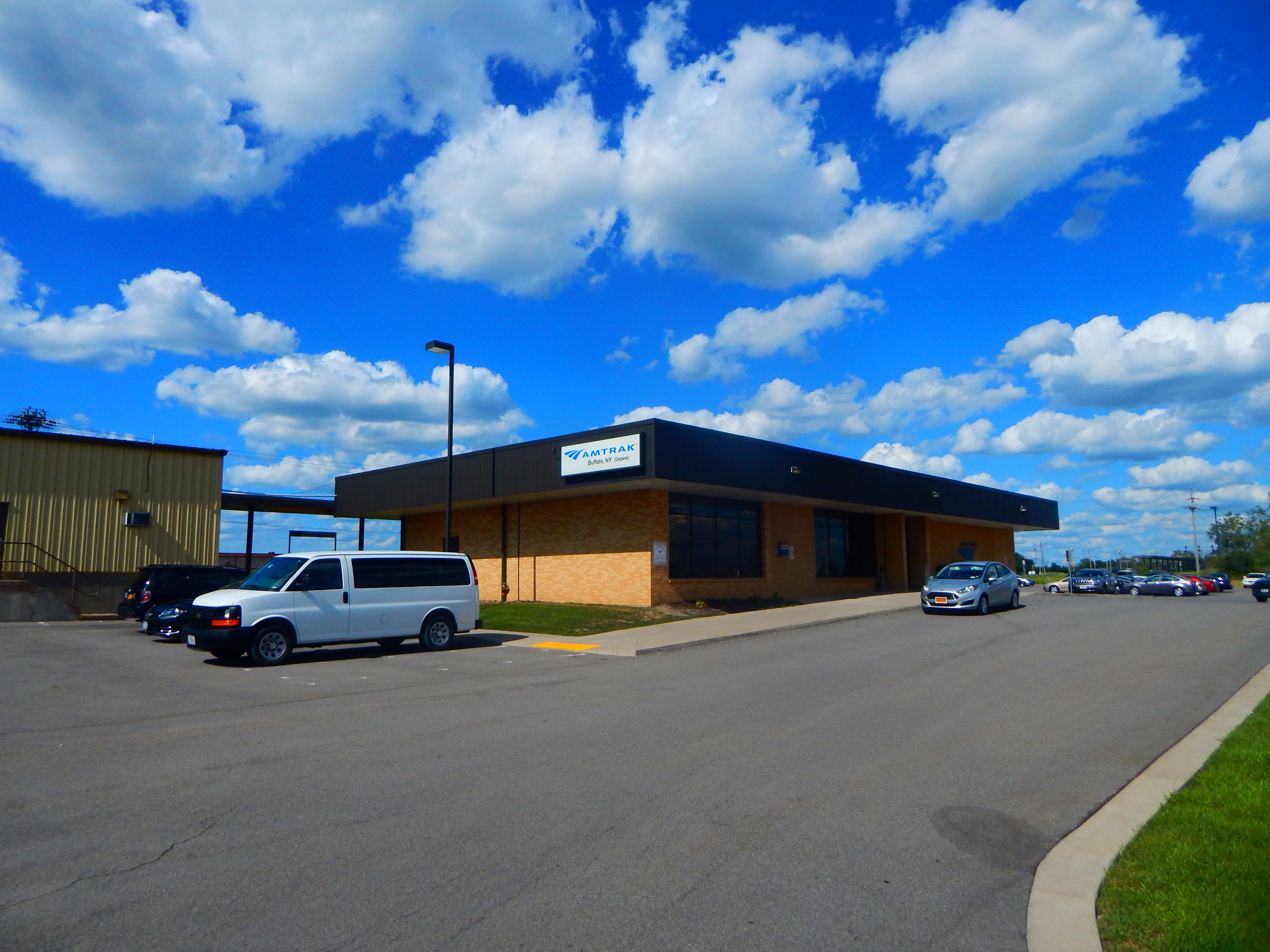 Buffalo-Depew station in July 2015